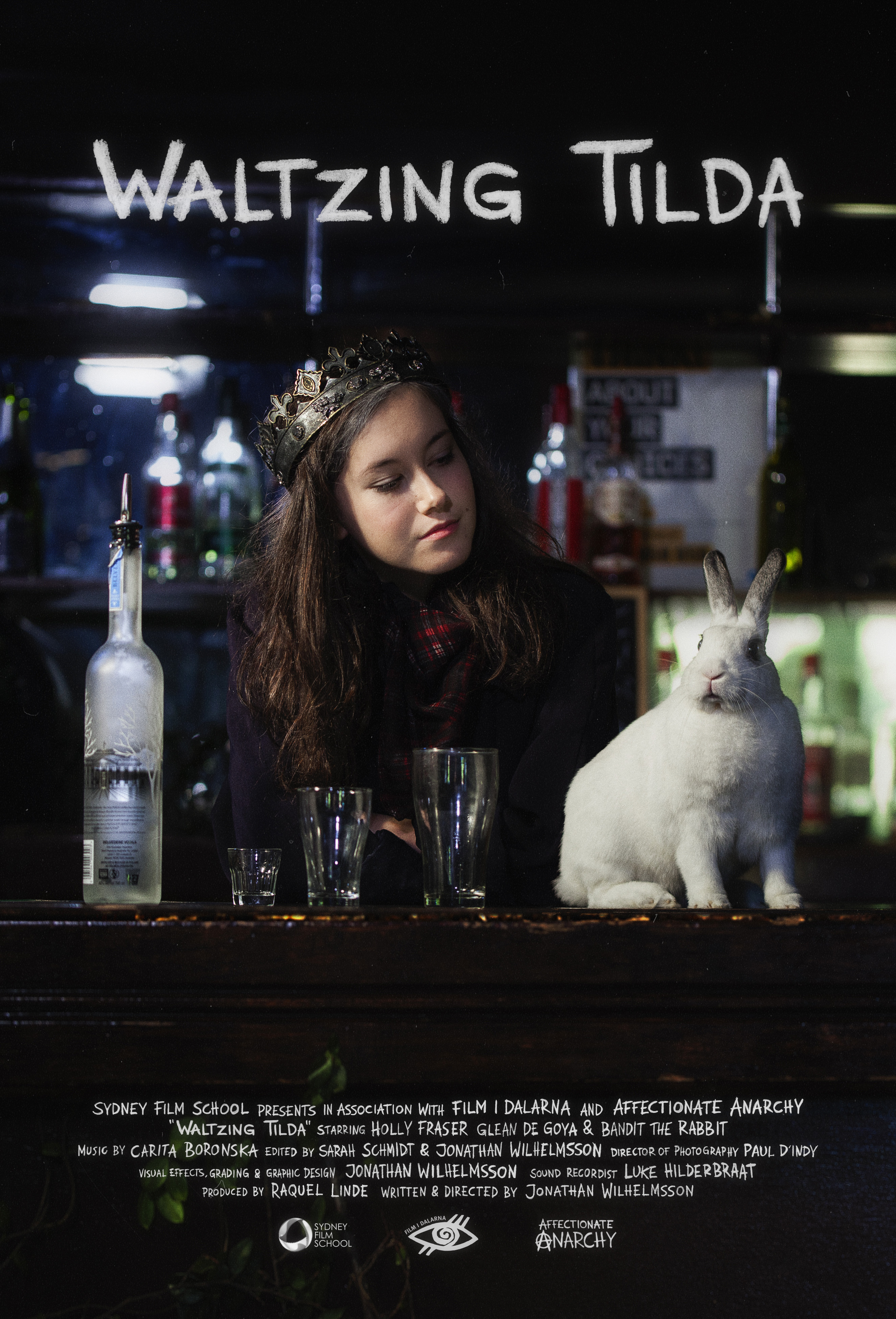 The theatrical release poster for 'Waltzing Tilda', made by Jonathan Wilhelmsson.